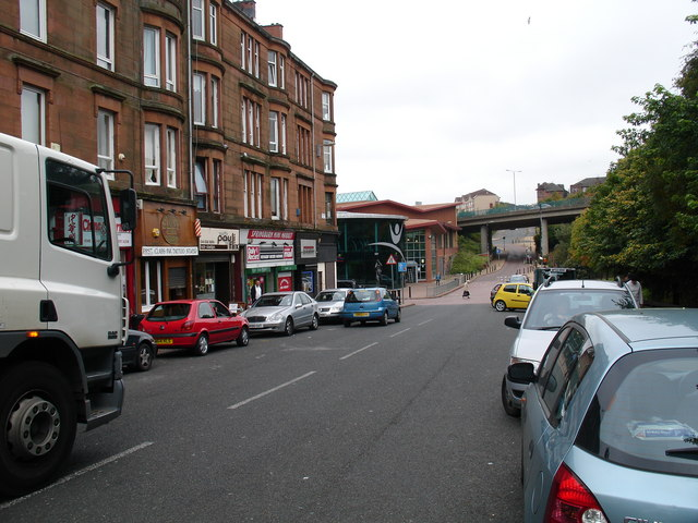 Springburn Road Looking north along the revised alignment. Originally a main artery, the Springburn and Atlas Road bypasses made this former busy thoroughfare a quiet backwater by comparison.